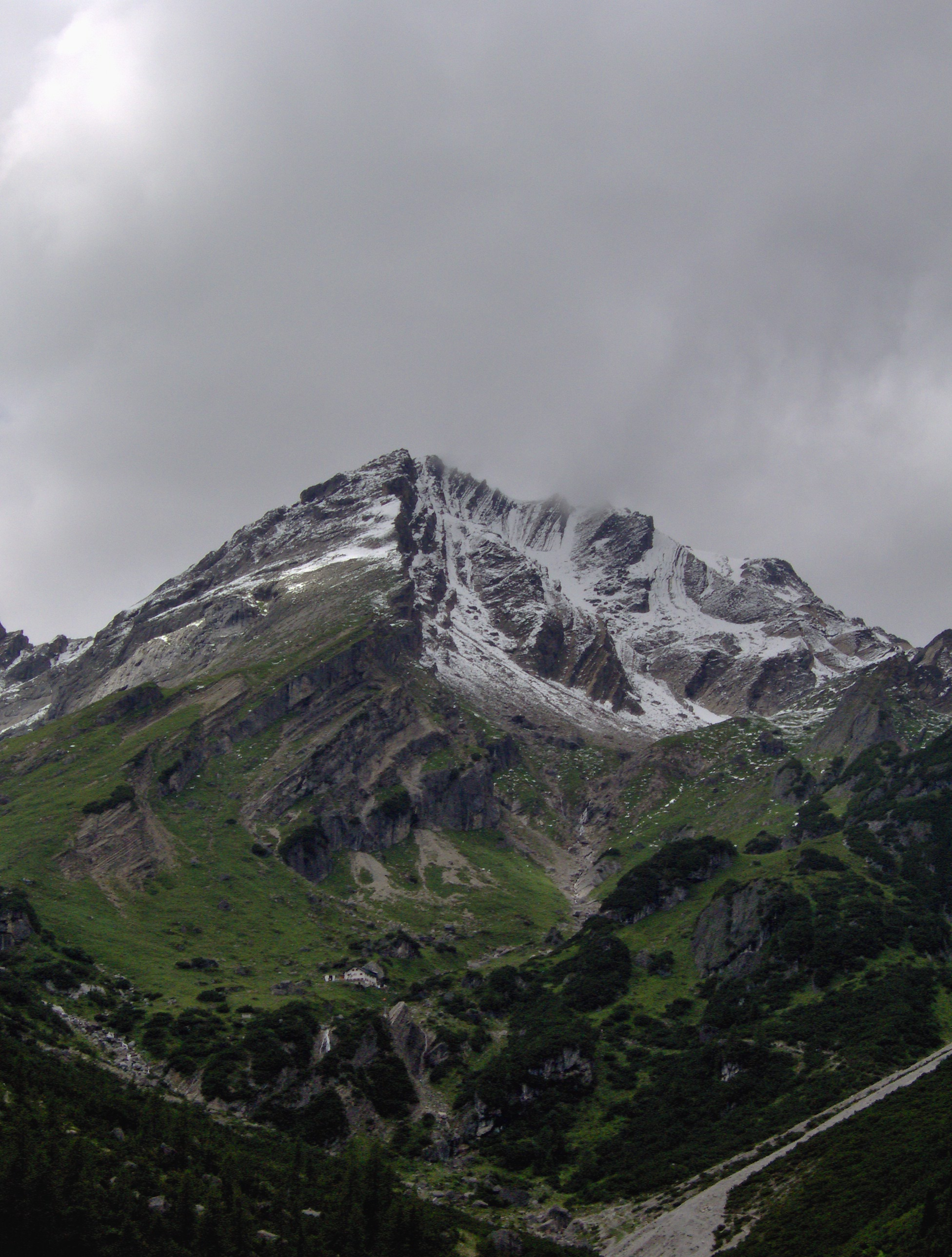 The Muttekopf mountain in the Lechtal Alps near Imst in Tyrol, Austria. Just below the top is the alpine hut of the ÖAV-section Imst-Oberland, the Muttekopfhütte. Geologicaly, the Muttekopf is built from stones of the Gosau-Group (Upper Cretacious, Lower Paleogene